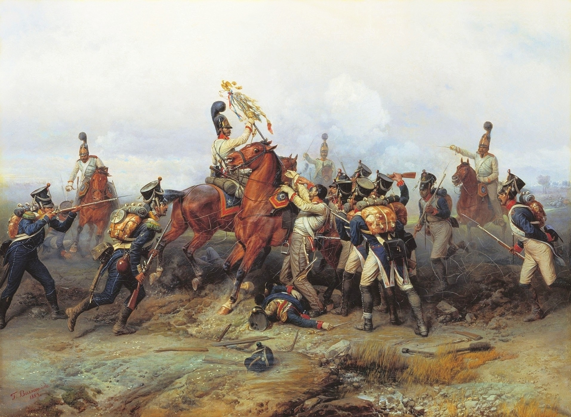 Capture of a French regiment's eagle by the cavalry of the Russian guard at Austerlitz. The French lost only one eagle at the battle of Austerlitz and this happened when the Russian horse Guard caught the 4th Line regiment in the open and charged them.